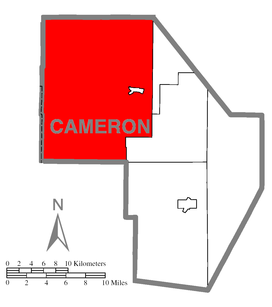 A map of Cameron County showing Shippen Township, Pennsylvania (alternate) highlighted on the map.